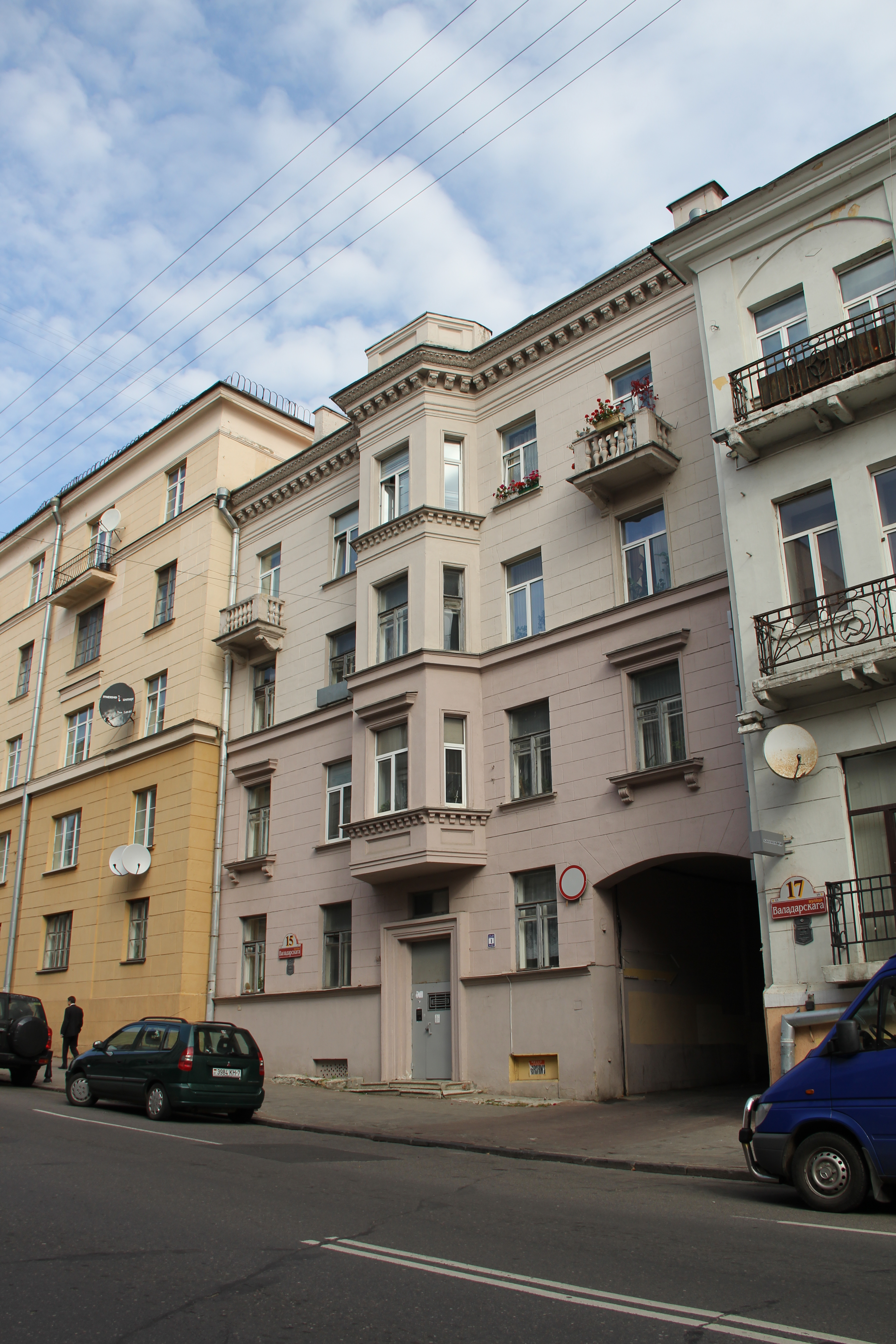 Беларуская (тарашкевіца): Будынак. г. Менск This is a photo of Belarusian heritage monument. Reference number: 713Г000024 ( WLM)